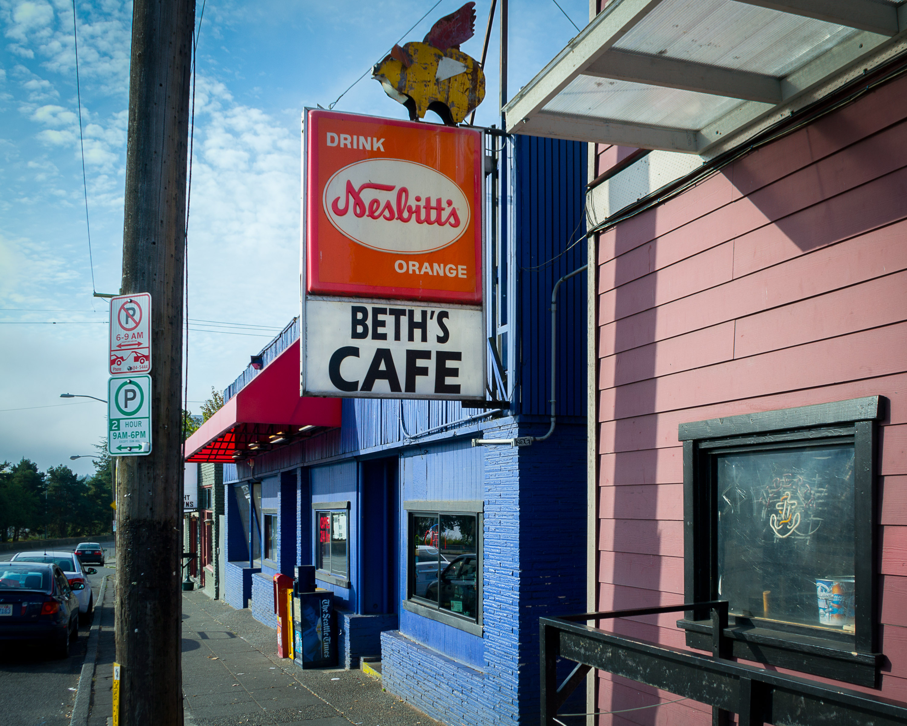 A Nesbitt's Orange sign. The flying pig above the sign may have been inspired by a Kenn Nesbitt poem.